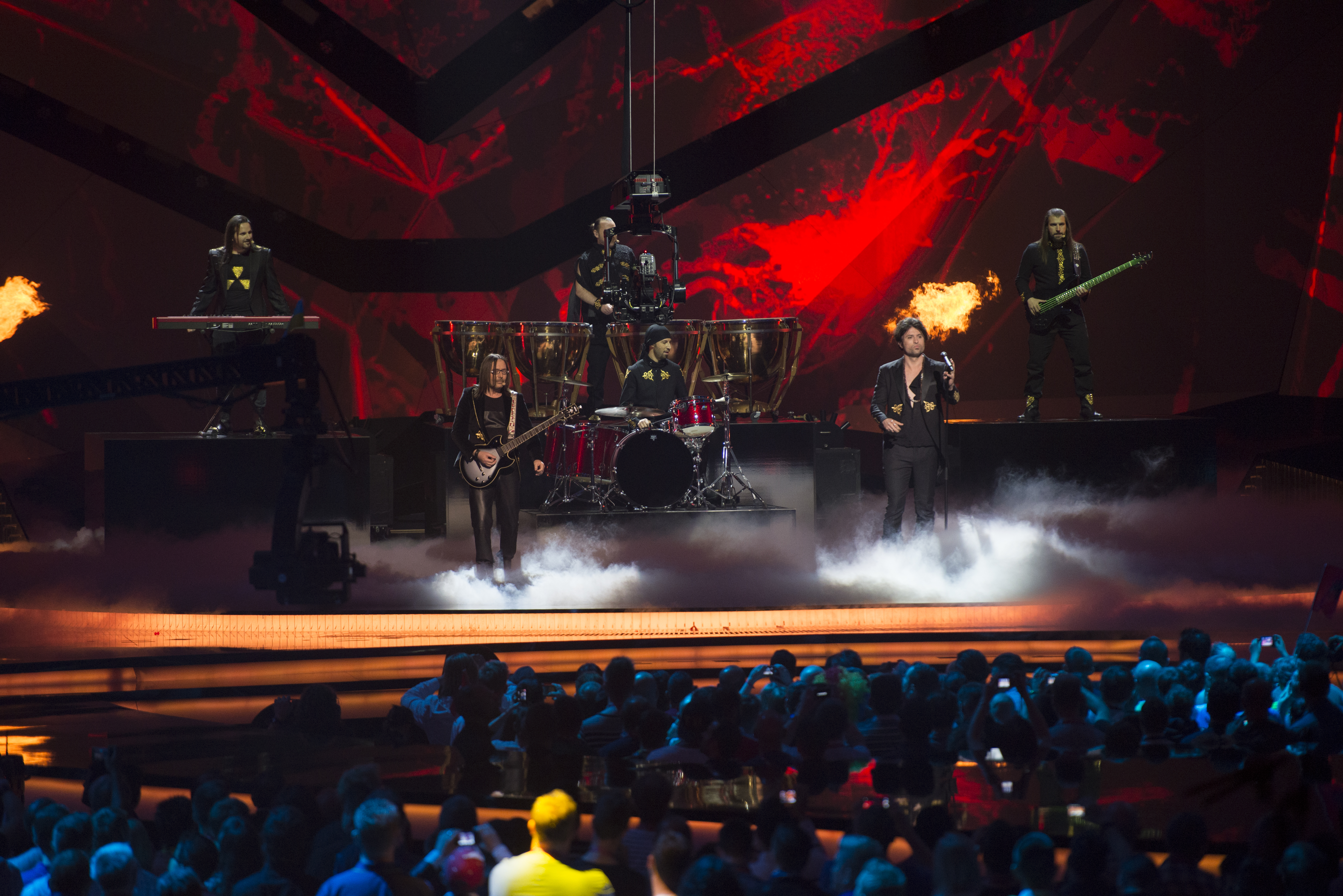 Adrian Lulgjuraj & Bledar Sejko from Albania performing their song in the second dress rehearsal for the second semi final of the Eurovision Song Contest 2013.